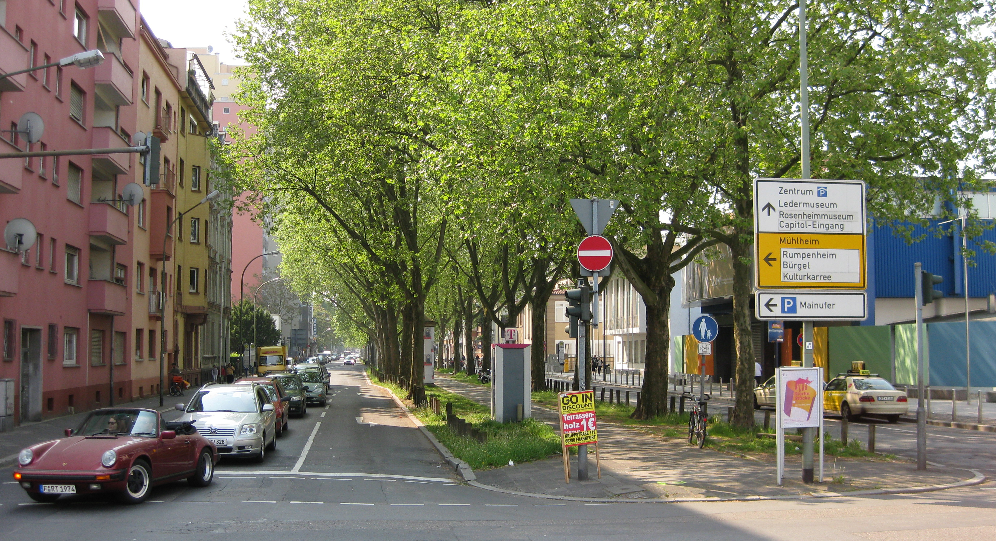 Kaiserstraße in Offenbach from north to south